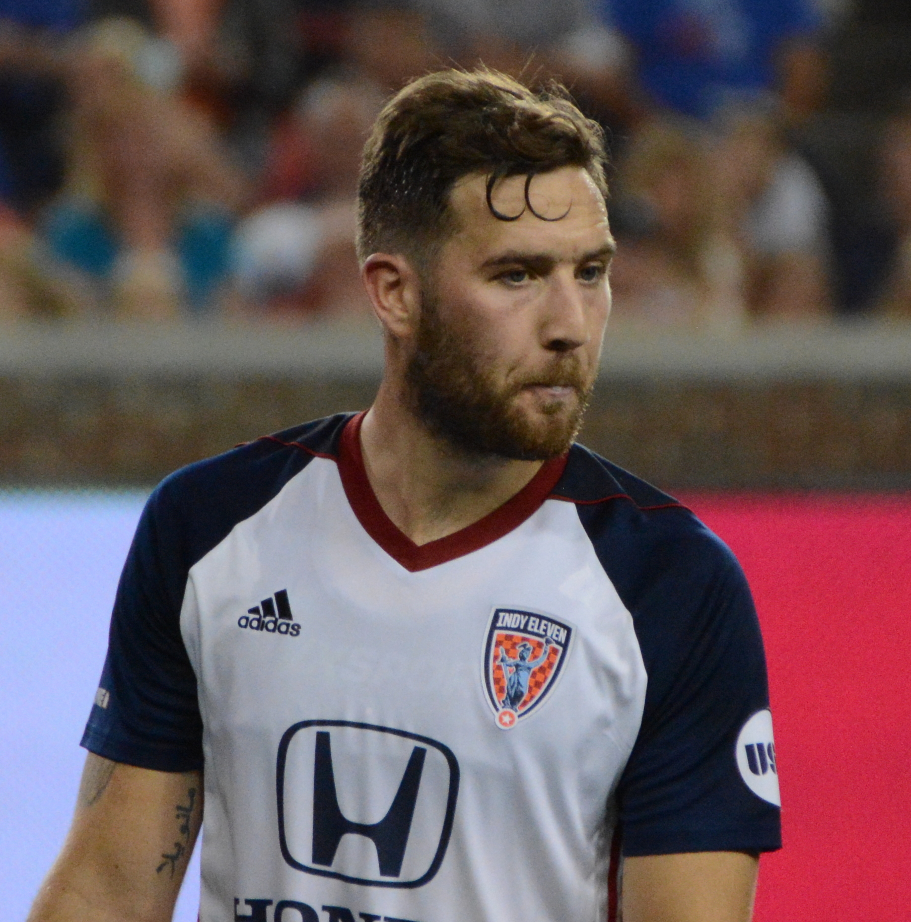 Taken during a USL regular season match between FC Cincinnati and Indy Eleven at Nippert Stadium in Cincinnati, USA on September 29, 2018.